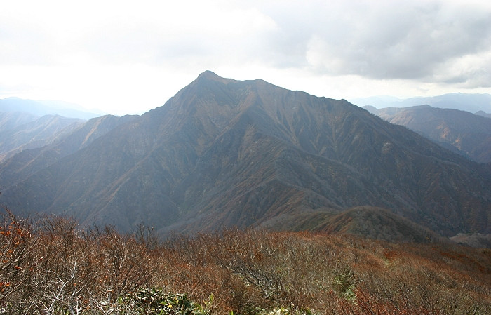 Mount Iwaigame (Iwaigamesan) as seen from Mount Hiraiwa